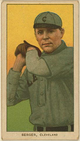 T206 baseball card for Heinie Berger